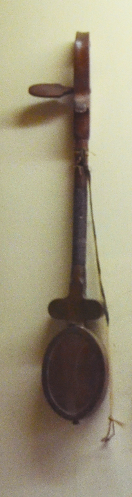 Kendara, traditional instrument from Odisha. This is mostly played by Jogis (saints who live by alms) who travel villages and sing devotional music. Picture in Odisha state museum, Bhubaneswar, Odisha